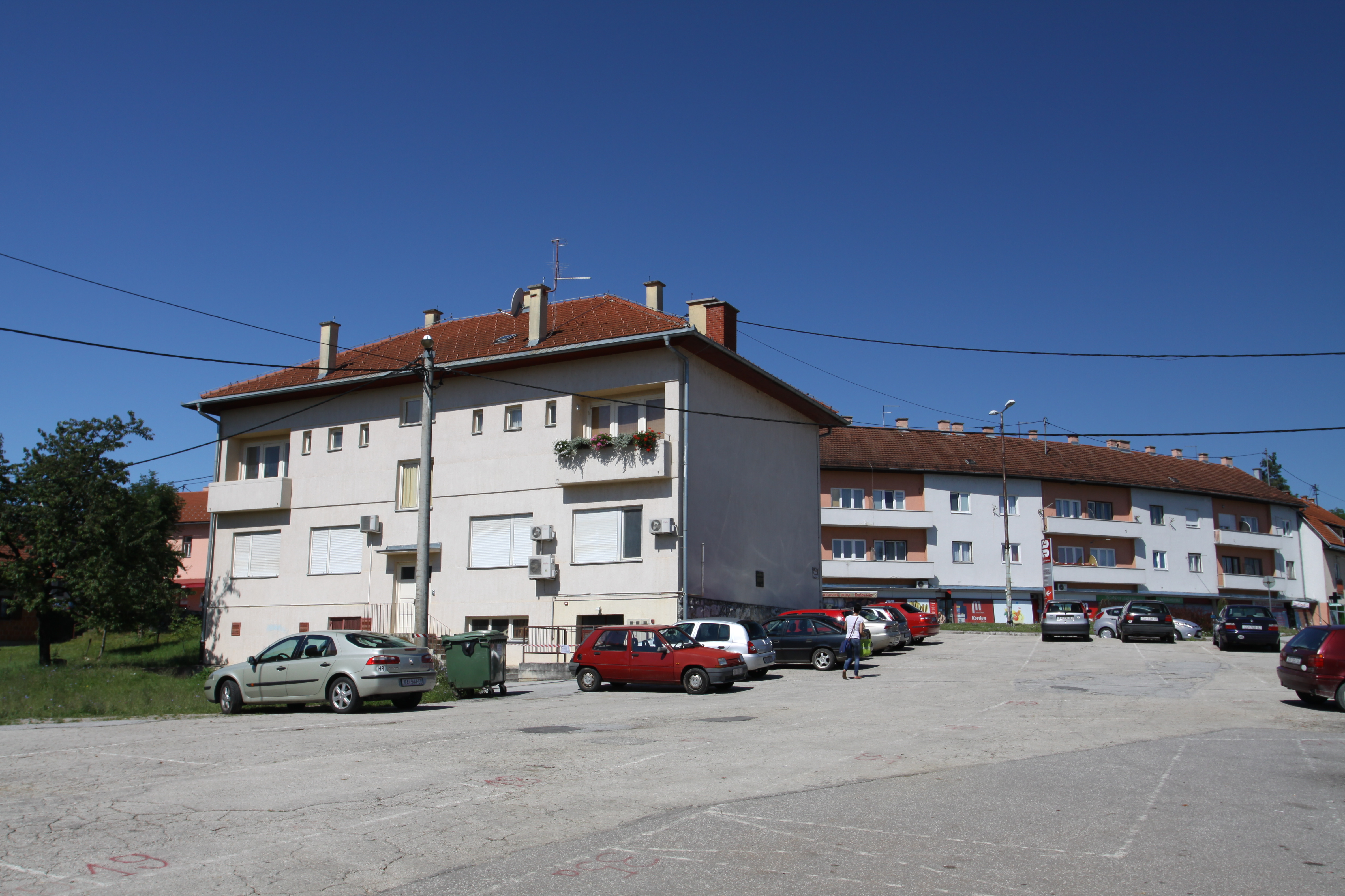 Rastoke in municipality of Slunj, Croatia